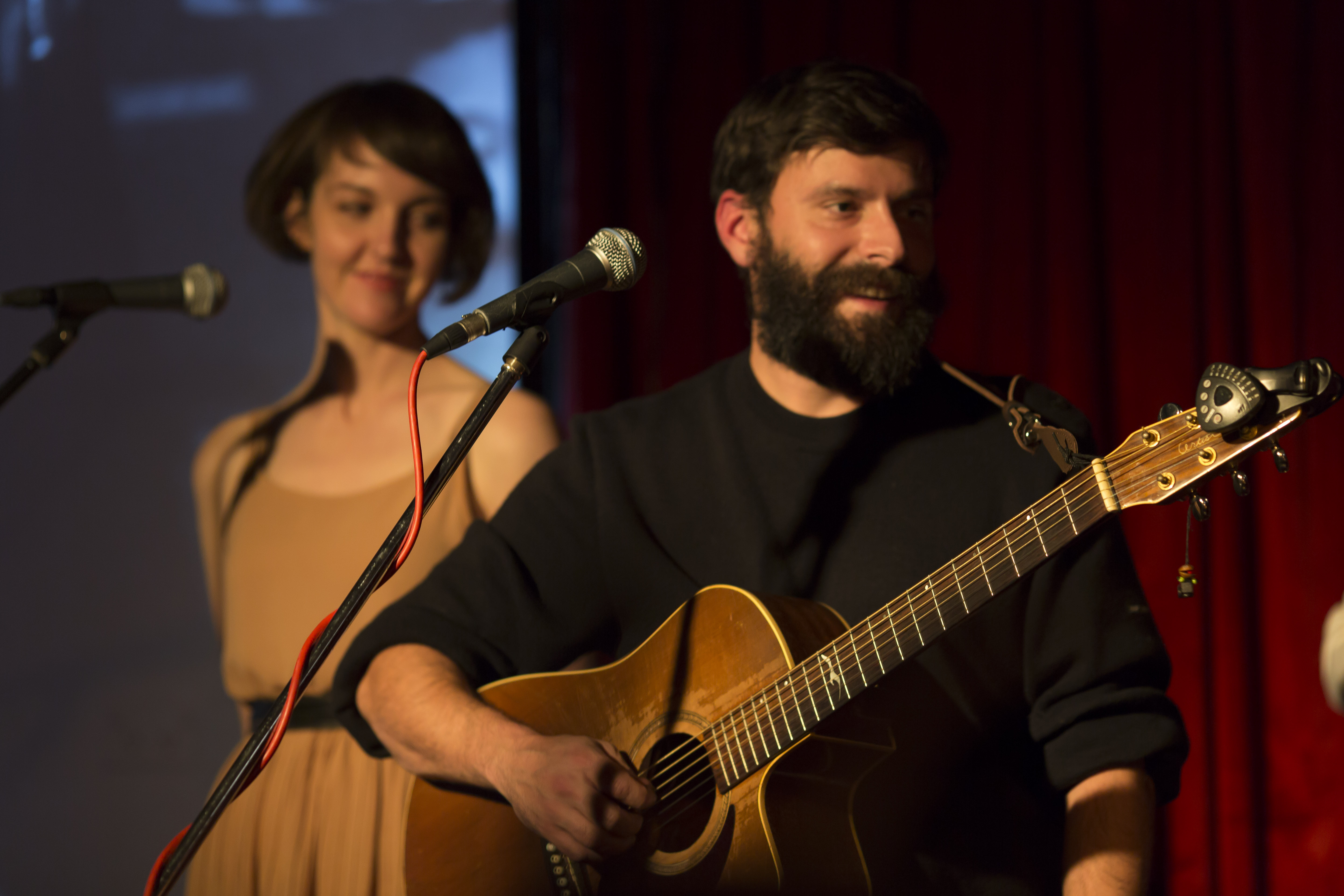 Brian Campeau - Album Launch. May 10, 2015